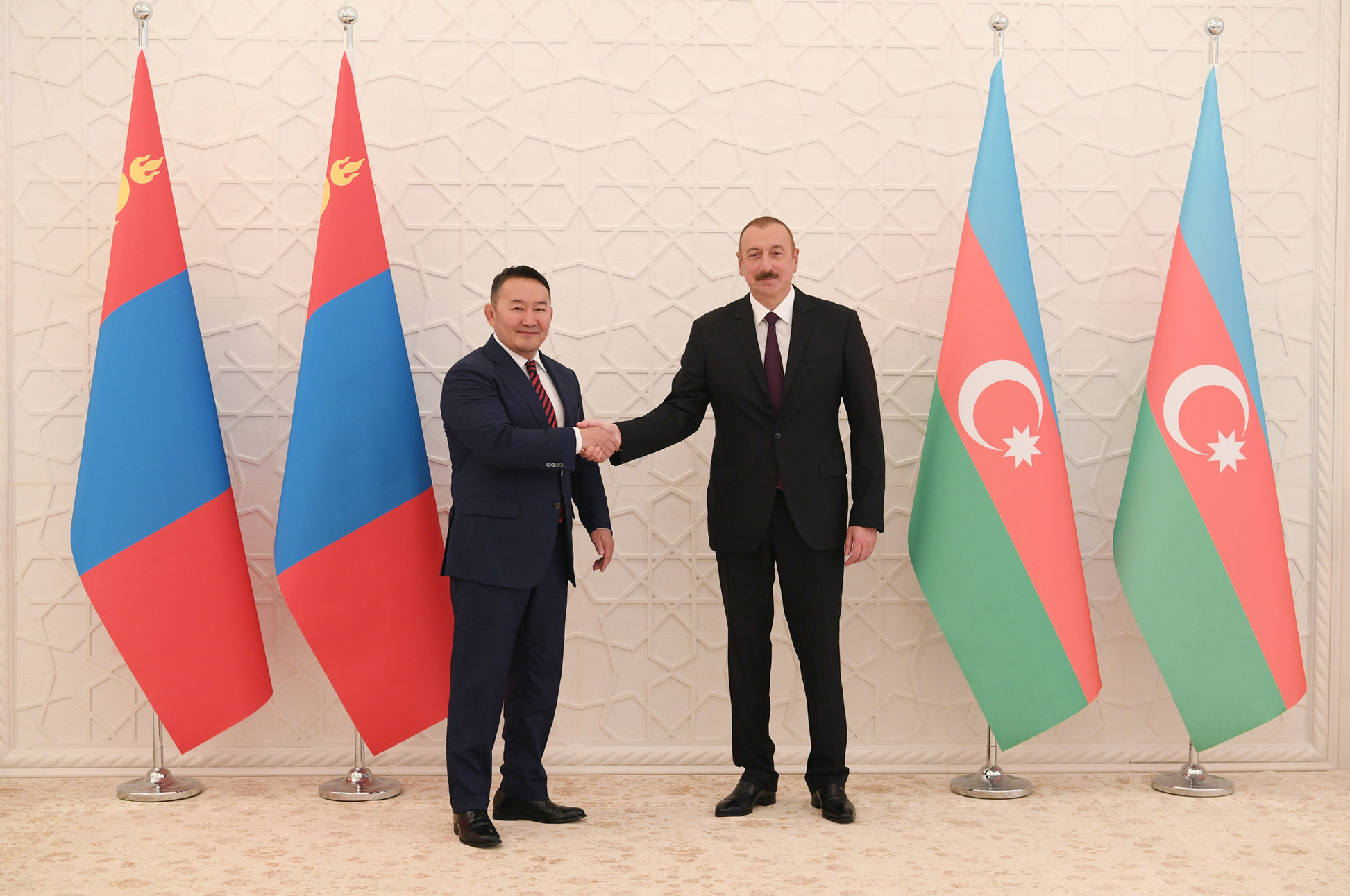 Ilham Aliyev met with Mongolian President Khaltmaagiin Battulga